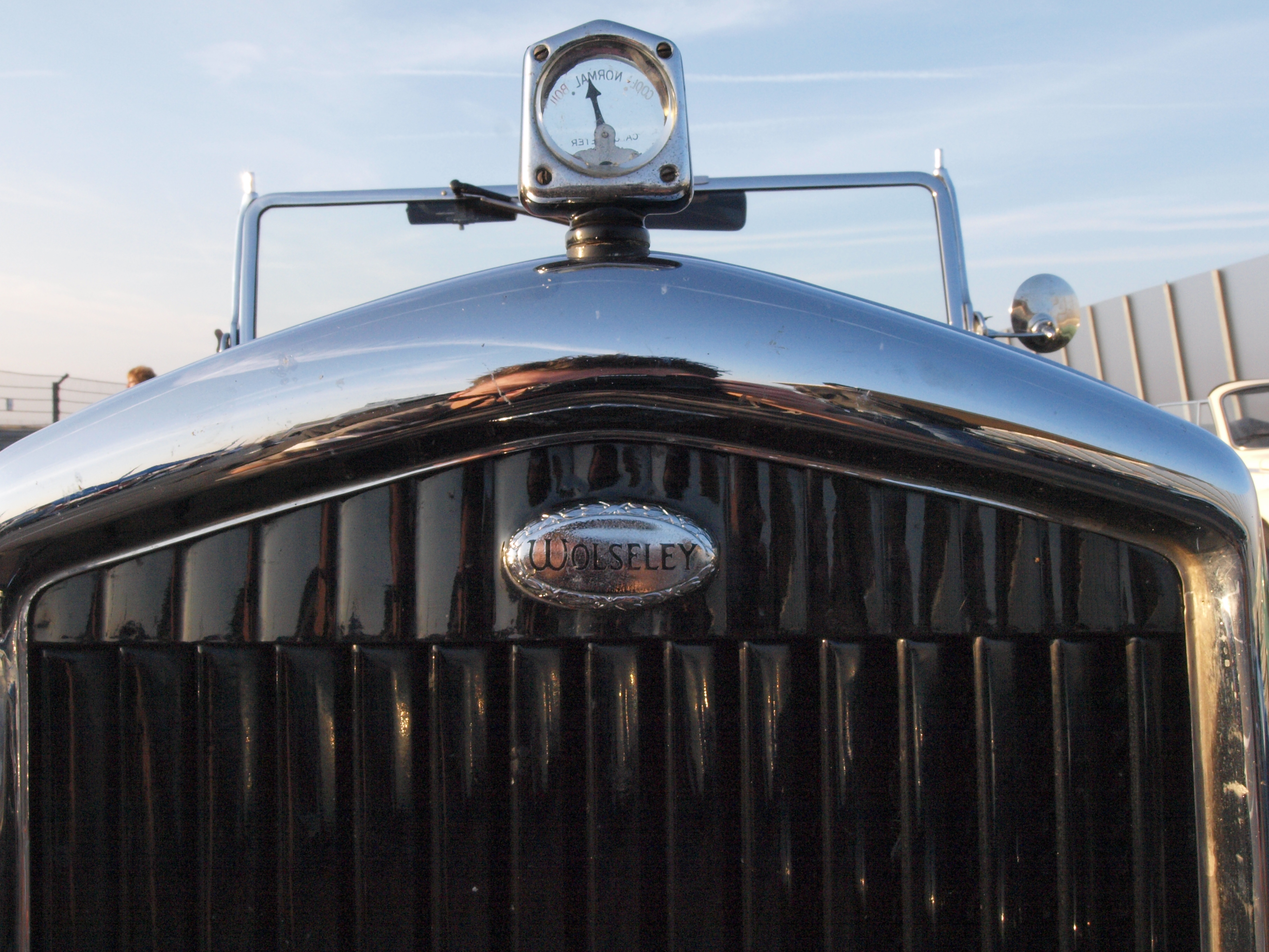 Photographed at the Nationaal Oldtimer Festival Zandvoort 2009, The Netherlands. OLYMPUS DIGITAL CAMERA Wolseley Hornet cabriolet 6-cylinders 1271 cc 25bhp 4-seater